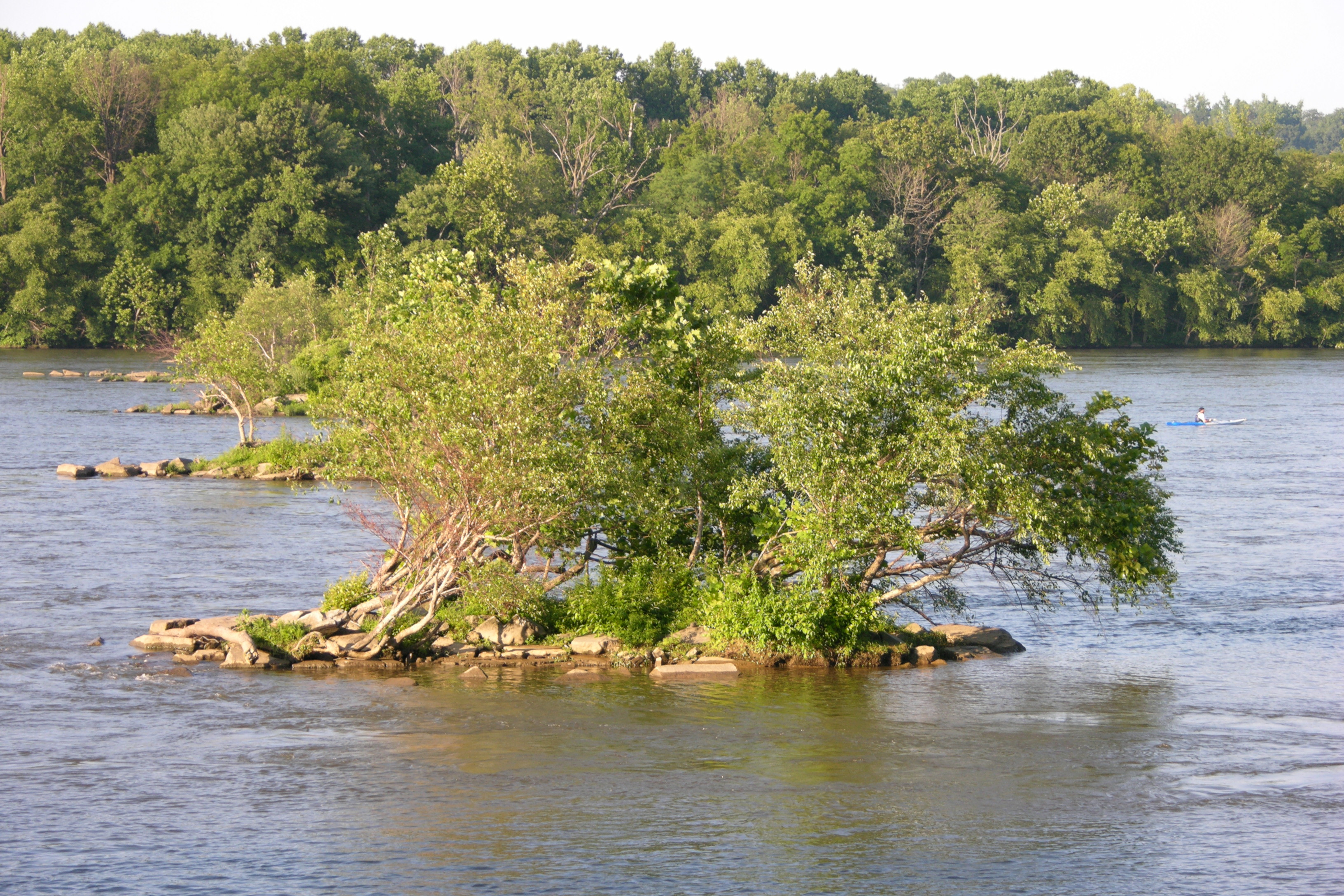 Picture an islet in the Susquehanna_River from the Susquehanna State Park in Maryland somewhere along Stafford Road. The picture was taken looking NE. It was directly adjacent to an old two story house (plus a basement) with white siding and a stone foundation. This house is most likely the old Jersey Toll House. (See Port Deposit Bridge for more information).